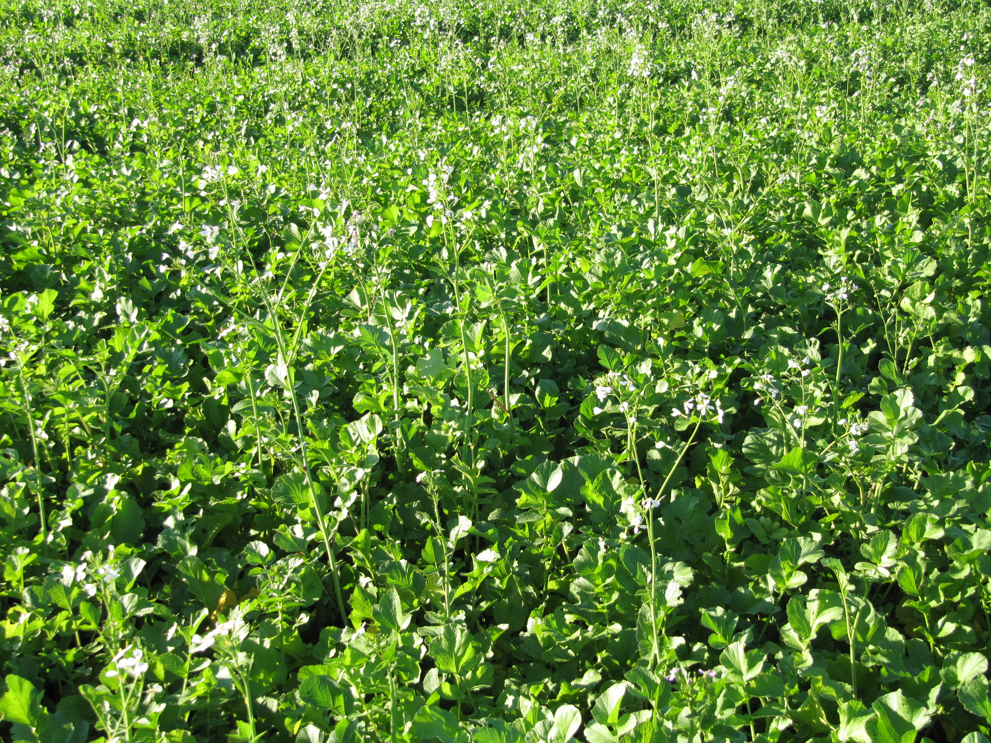 Raphanus sativus subsp. oleiferus